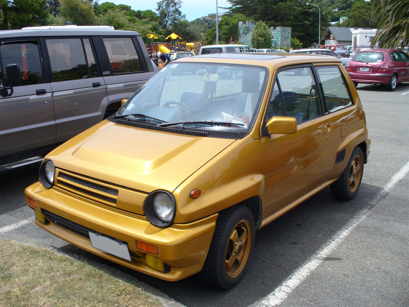 1984 Honda City Turbo 2 - AKA The Bulldog.